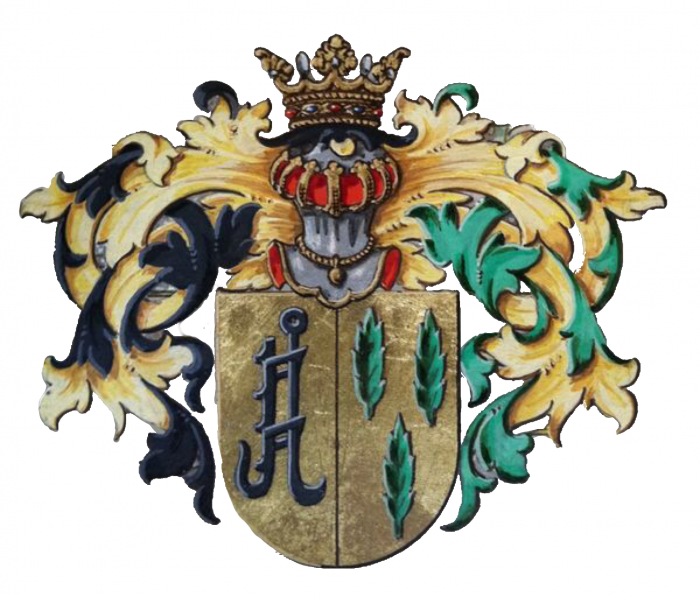 Familiewapen van de familie Linthorst Homan